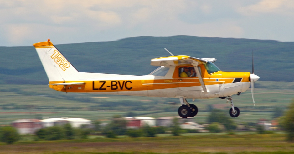 Cessna 152 during low-pass